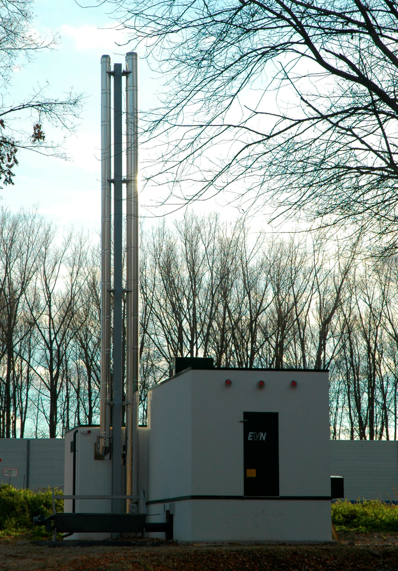 Biomass heating plant in Austria